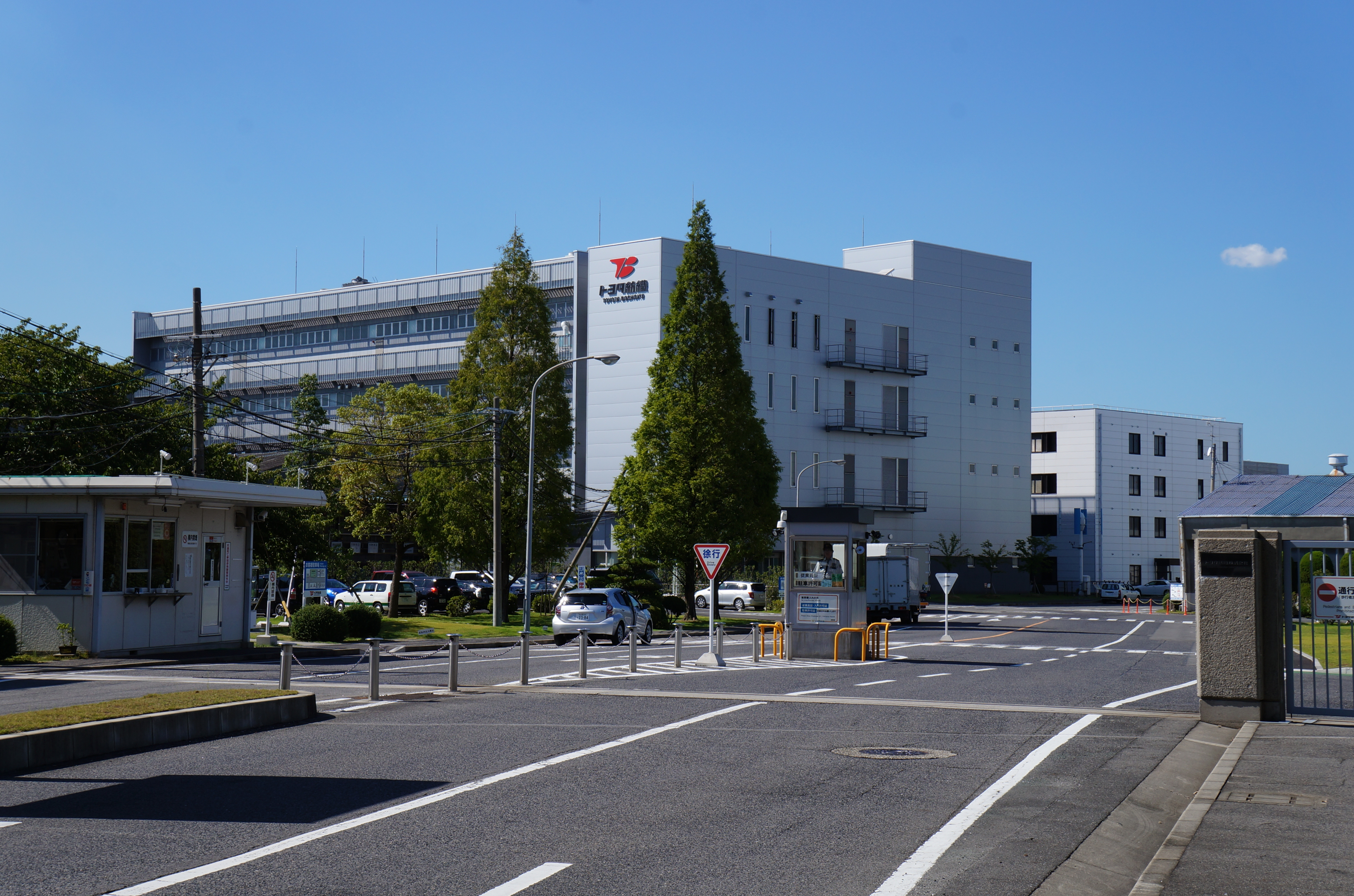 Toyota Boshoku Corporation headquarters in Kariya City, Aichi Prefecture, JAPAN.